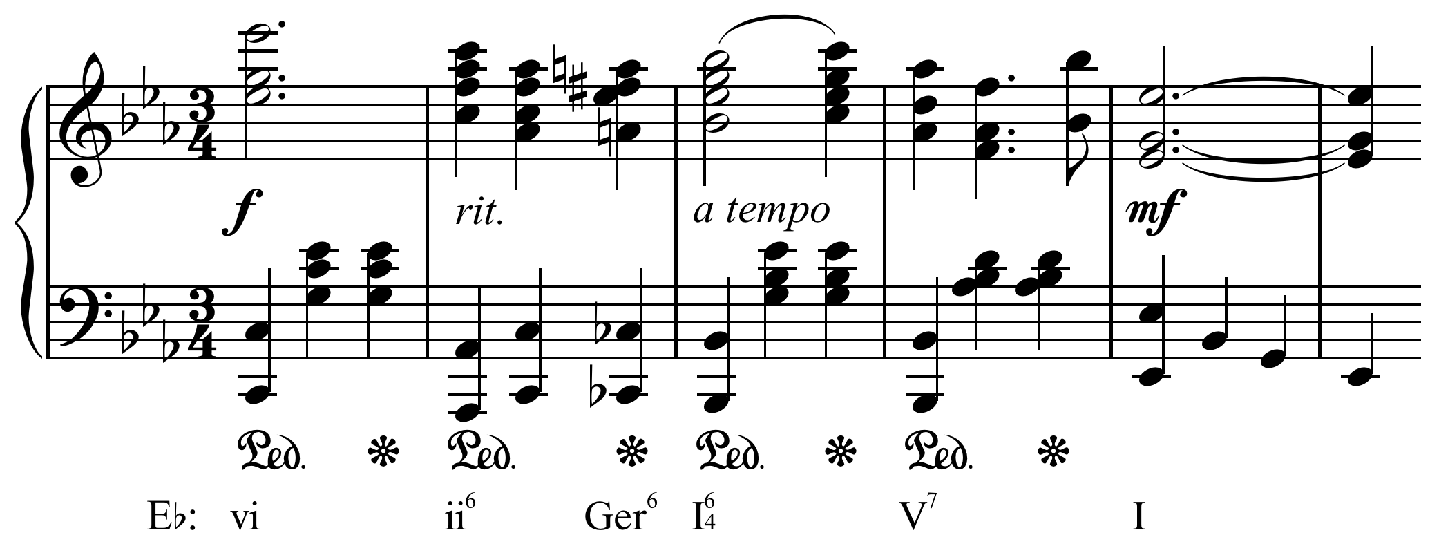 Example of a German sixth chord, preceded by predominant chords, in Scott Joplin's Binks' Waltz (1905).